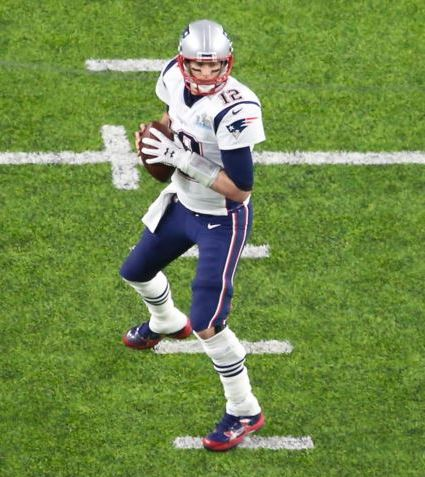 Super BowlNew England Patriots quarterback Tom Brady drops back to pass in the second half of Super Bowl LII (Brian Allen/VOA)